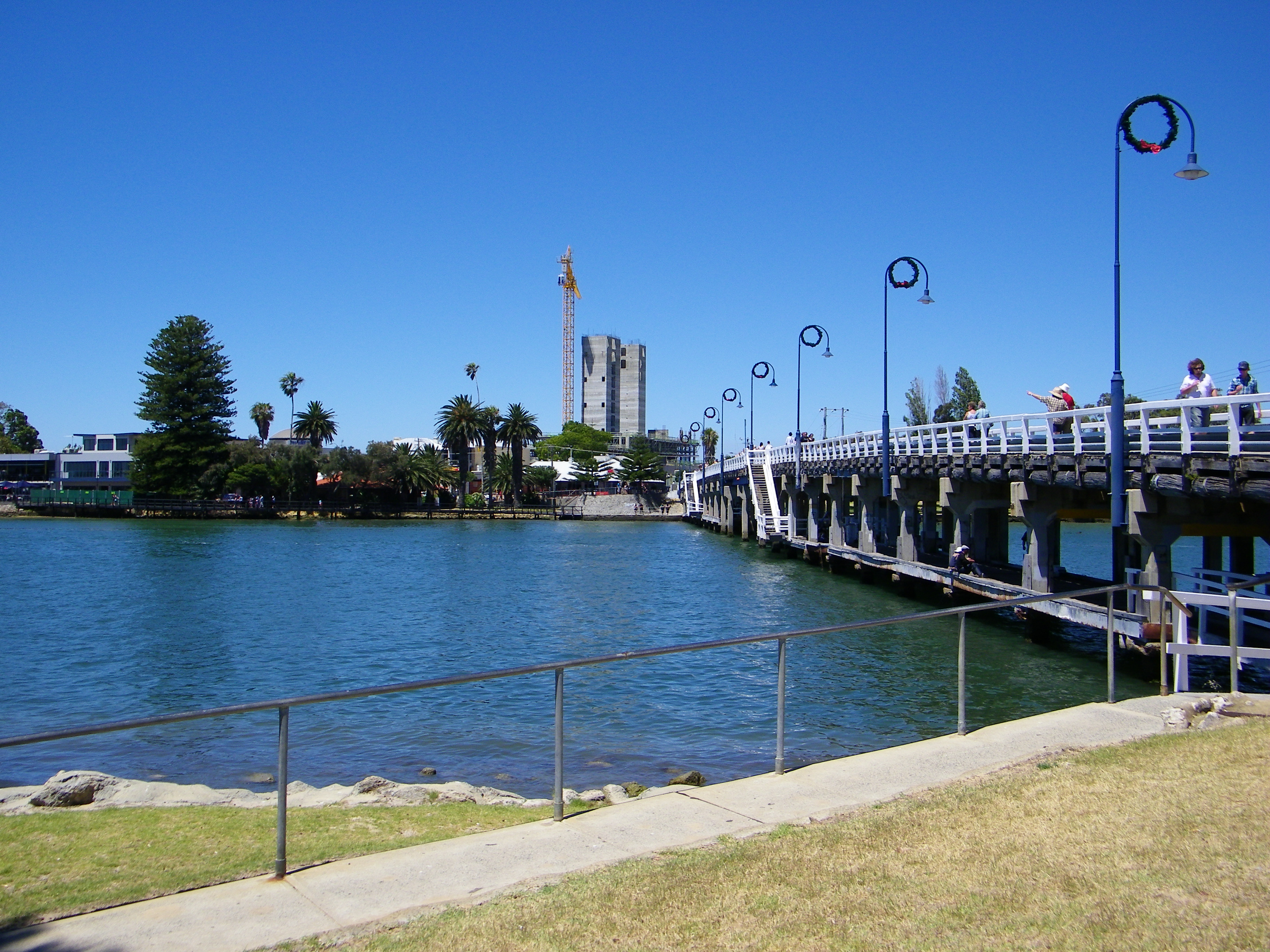 Old Mandurah Bridge